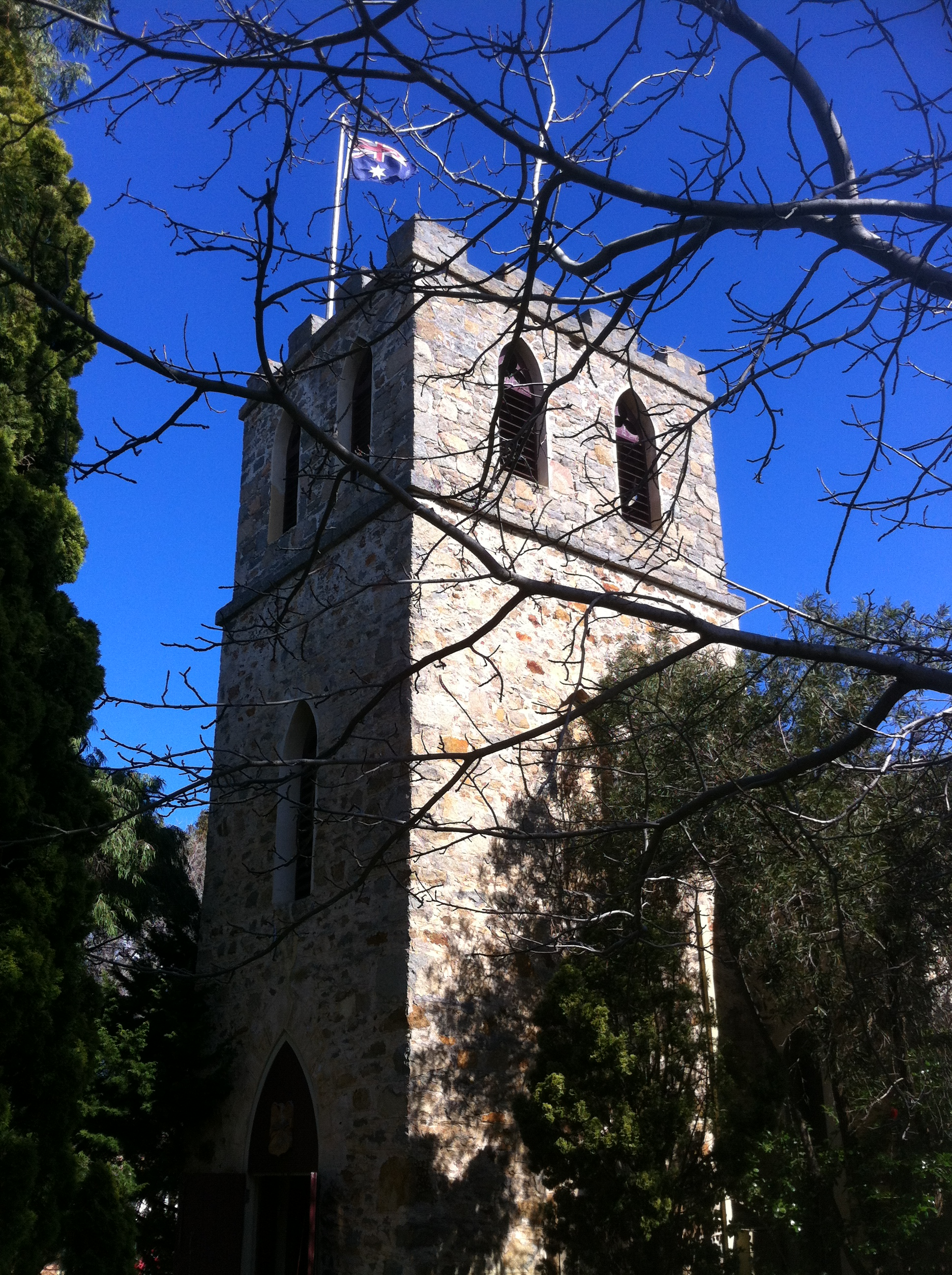 Tower of St Johns Church